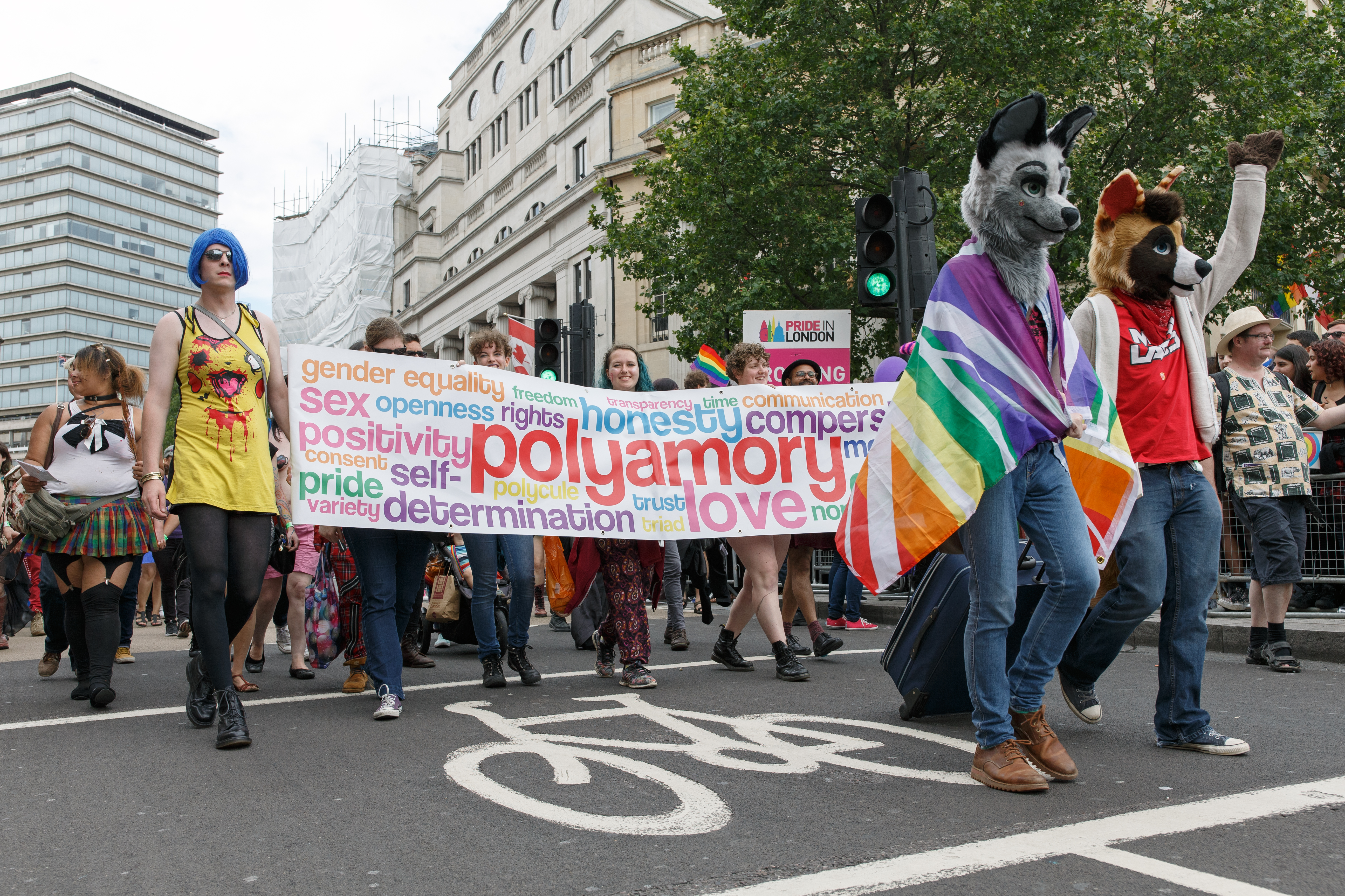 Polyamorous people parading under their banner at Pride in London 2016 with two furries in front of them.